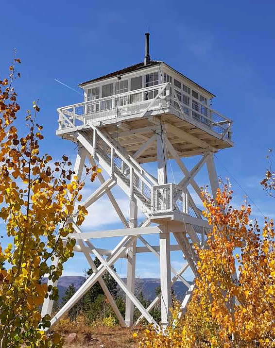 Photograph of the Ute Mountain Fire Tower